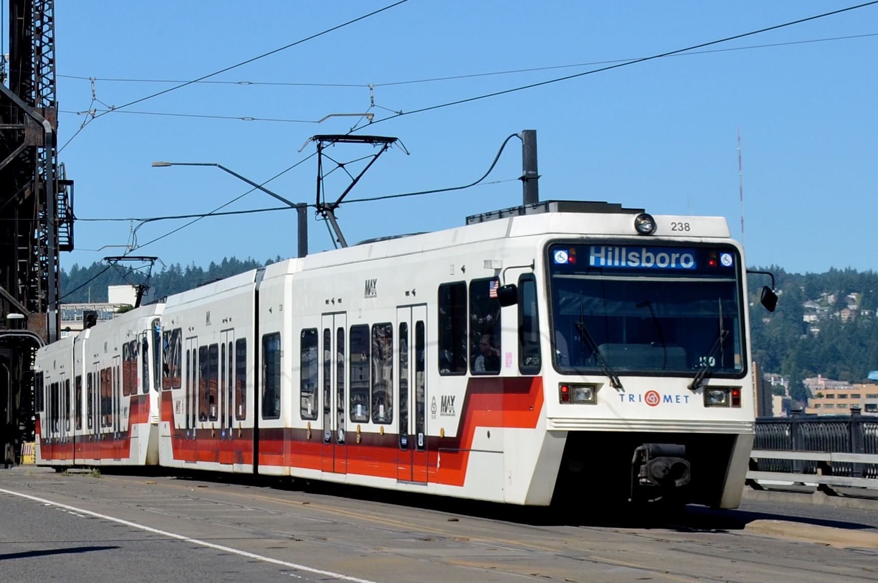 An ad-free MAX train composed of two Type 2 cars eastbound on the east deck of the Steel Bridge (going away from the camera), headed for Hillsboro on the Blue Line. TriMet's Type 2 cars are a series of 52 Siemens SD660 LRVs (light rail vehicles) built over the period 1996–2000, which were the first low-floor LRVs in North America.